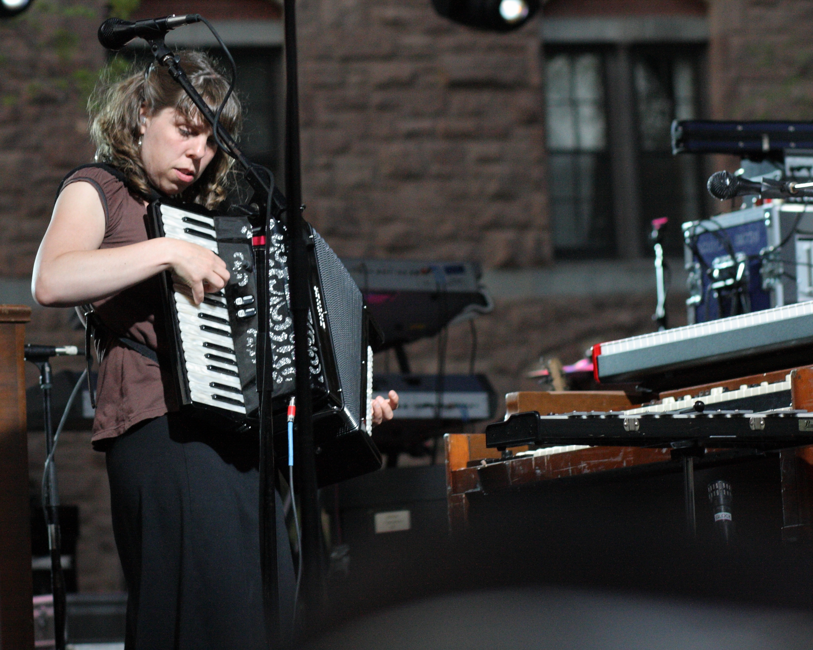 The Decmeberists performing at the Yale University "Spring Fling" on 28 April 2009, on Yale's Old Campus. Part of a larger set on Flickr: The Decemberists, 28 April 2009